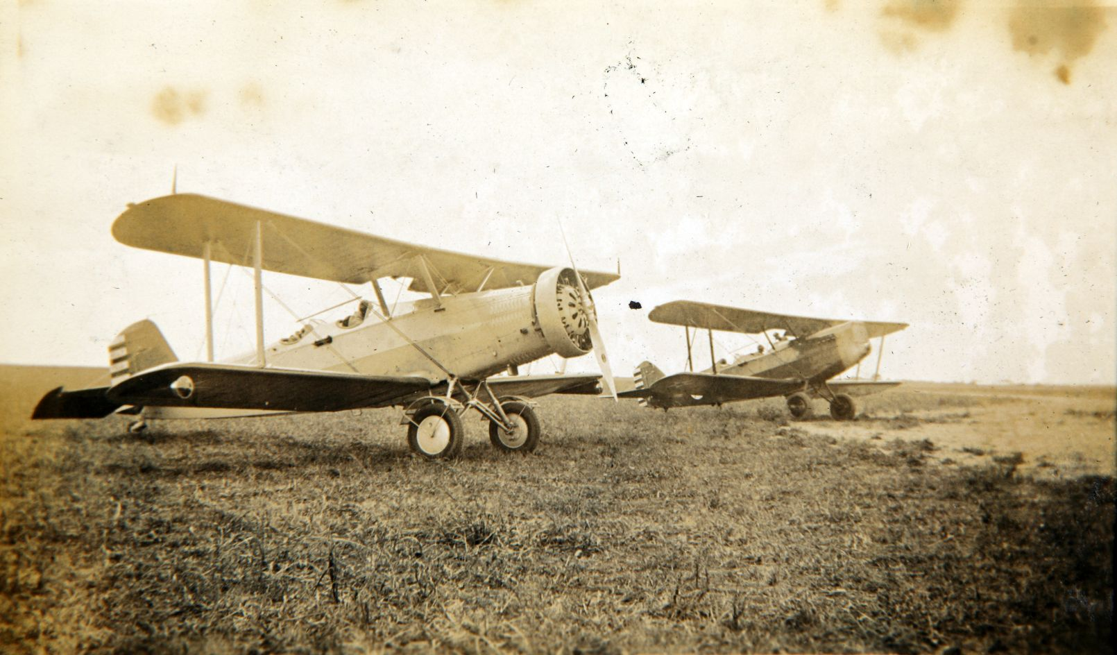 Douglas BT-2 (near camera) and BT-1 trainers at Waco, Texas.